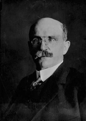 Charles Henry Rust, Victoria Water Commissioner, 1912-15 (Victoria, British Columbia, Canada)